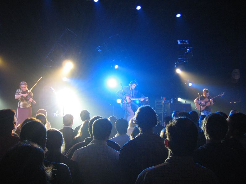 Sara Watkins, Chris Thile, Sean Watkins